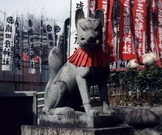 Inari statue in shrine at Inuyama Castle, Inuyama, Aichi Prefecture, Japan.